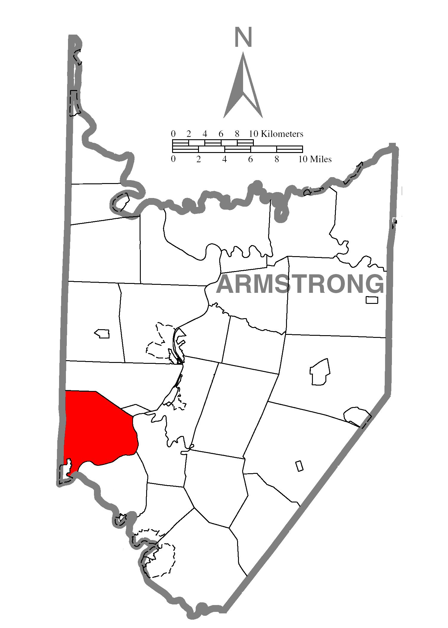 A map of Armstrong County showing South Buffalo Township, Pennsylvania (alternate) highlighted on the map.